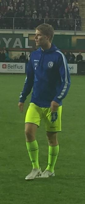 Own picture